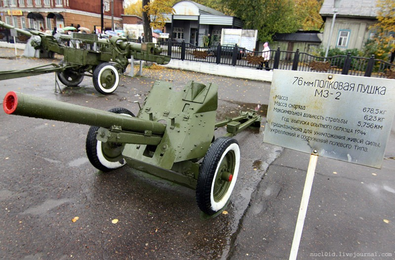 76.2-mm regimental gun MZ-2 (M1944). Motovilikha Plants museum in Perm Russia.